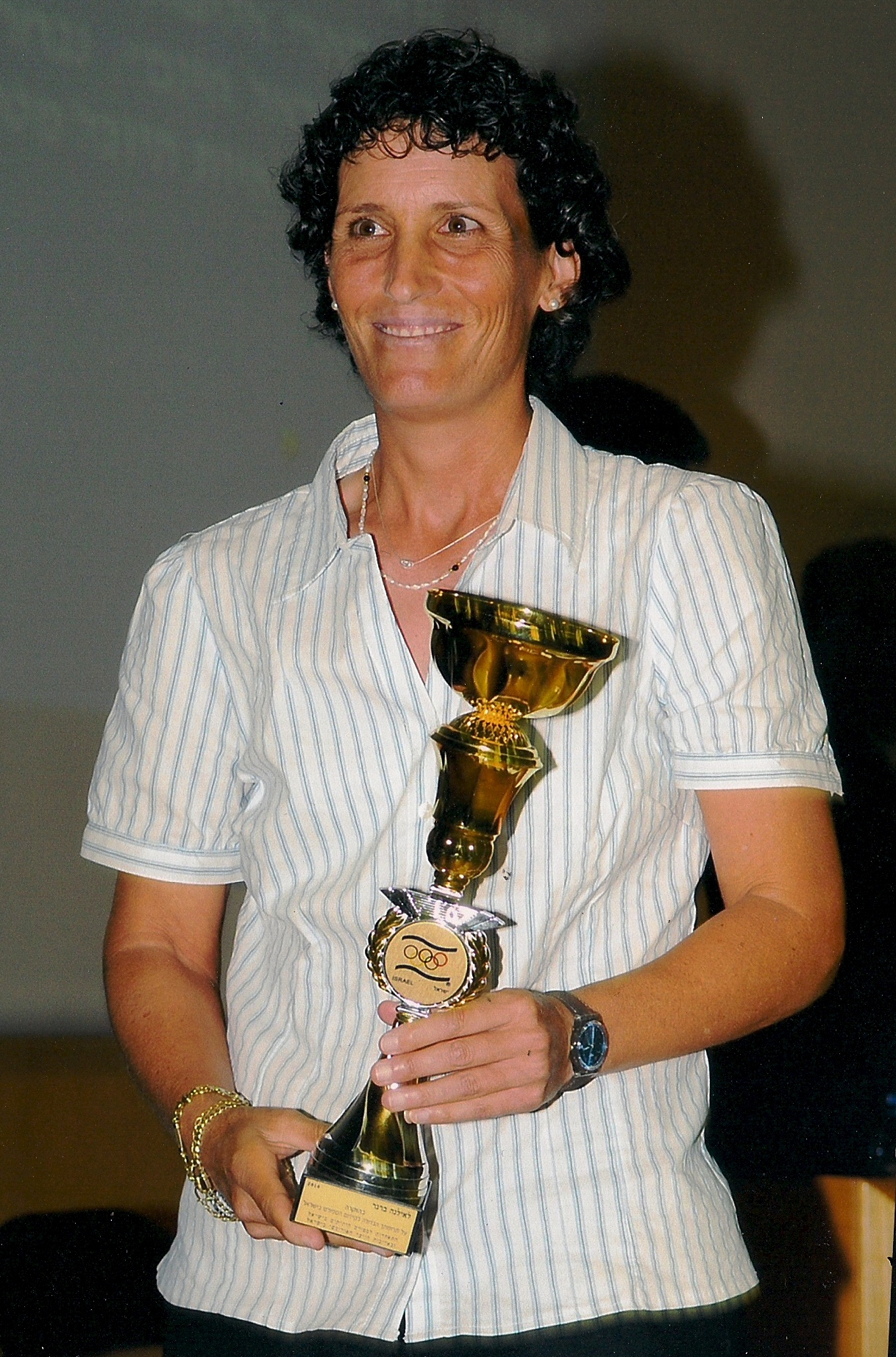 Israeli Tennis player Ilana Berger wins a life achievement award, 2010